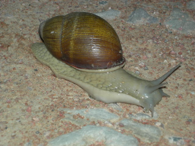 foto original do caramujo gigante Megalobulimus parafragilior endêmico da Mata Atlantica Brasileira realizada por Giacomo Clausi na RPPN Nhandara Guaricana